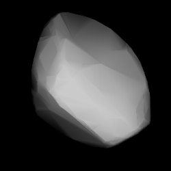 3D convex shape model of 1030 Vitja, computed using light curve inversion techniques. J. Hanuš, J. Ďurech, M. Brož, B. D. Warner (June 2011). "A study of asteroid pole-latitude distribution based on an extended set of shape models derived by the lightcurve inversion method". Astronomy and Astrophysics 530: A134. ISSN 0004-6361. arXiv